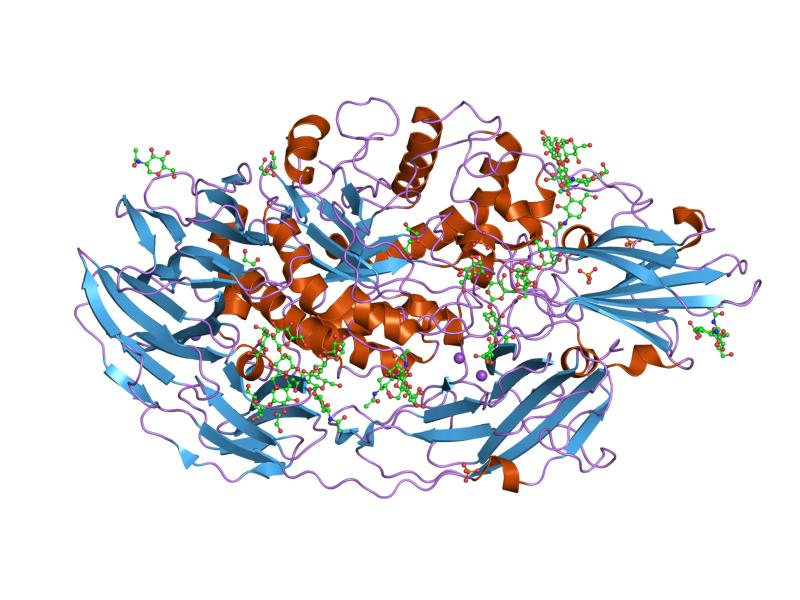 Cartoon representation of the molecular structure of protein registered with 1tg7 code.